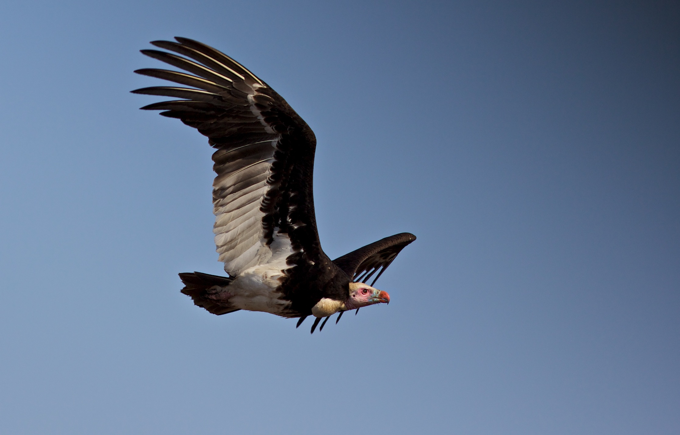 A White-headed Vulture flying at Kruger National Park, South Africa.